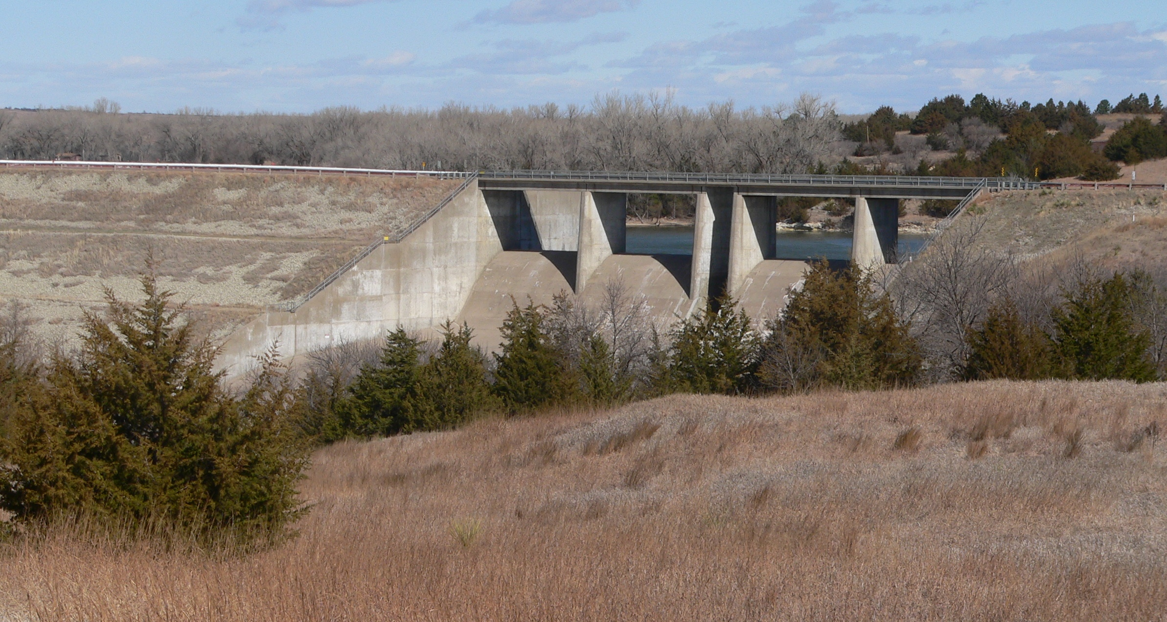 Spillway structure at Medicine Creek Dam, in Frontier County, Nebraska north of Cambridge, Nebraska. The dam was constructed in 1948-49. The reservoir behind it is Harry Strunk Lake.